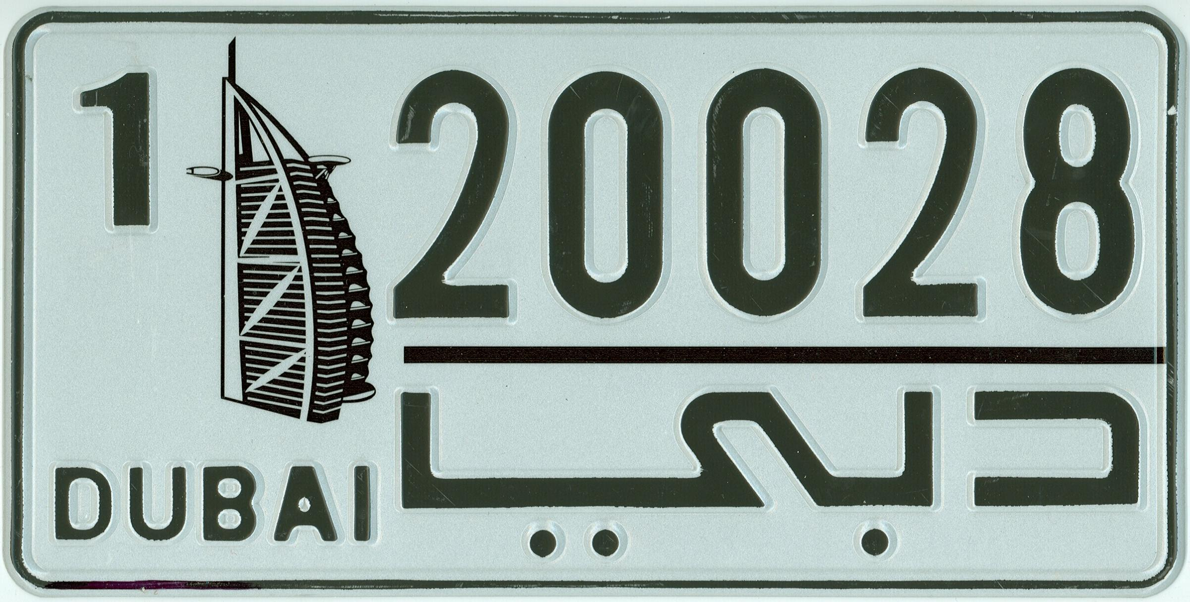 License plate from Dubai (UAE) with picture of the Burj al Arab